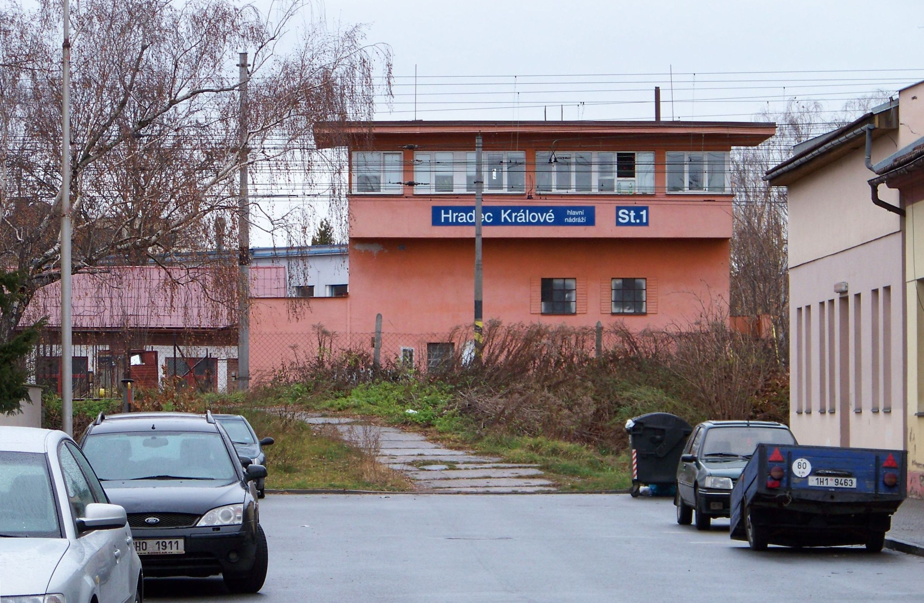 Hradec Králové-Pražské Předměstí, Hradec Králové District, Hradec Králové Region, the Czech Republic. Nerudova street, seen from Všehrdova street, a signal box of the main train station.